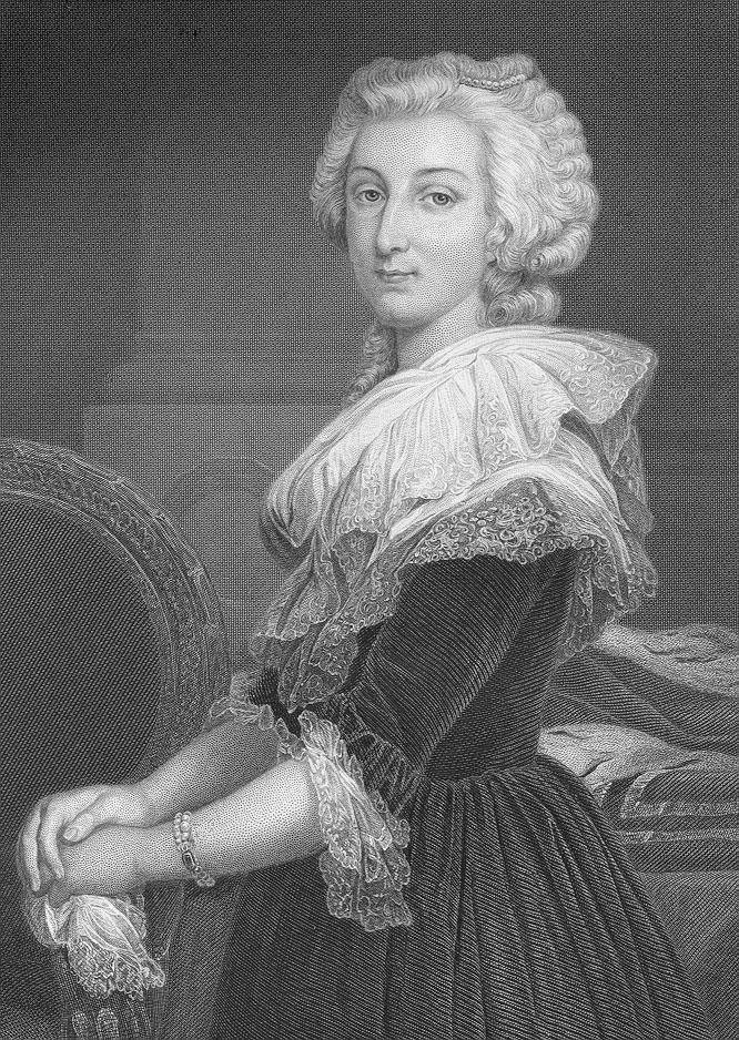 Portrait of Marie Antoinette von Habsburg-Lothringen